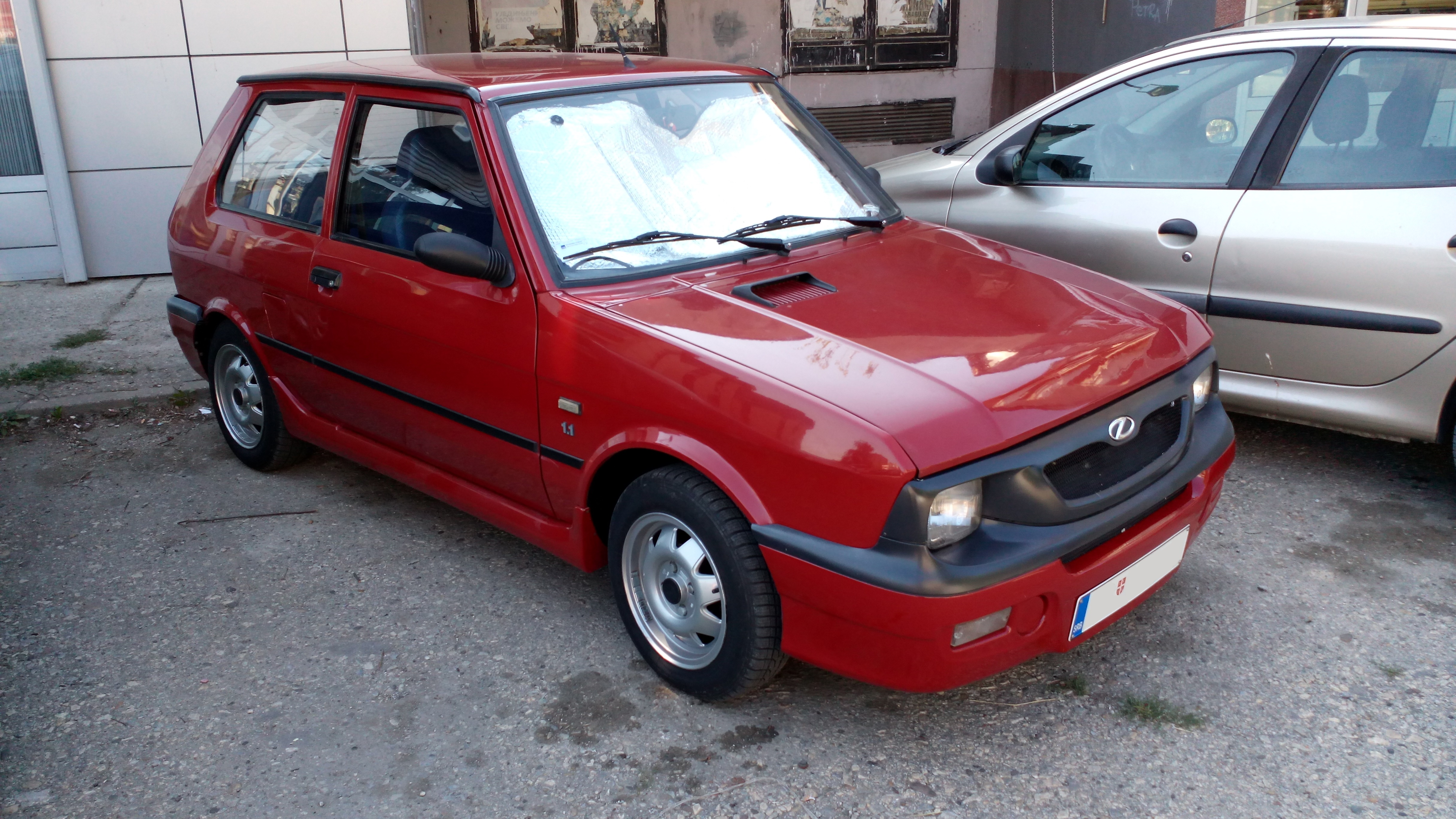 Zastava Koral In 1.1 in Kragujevac